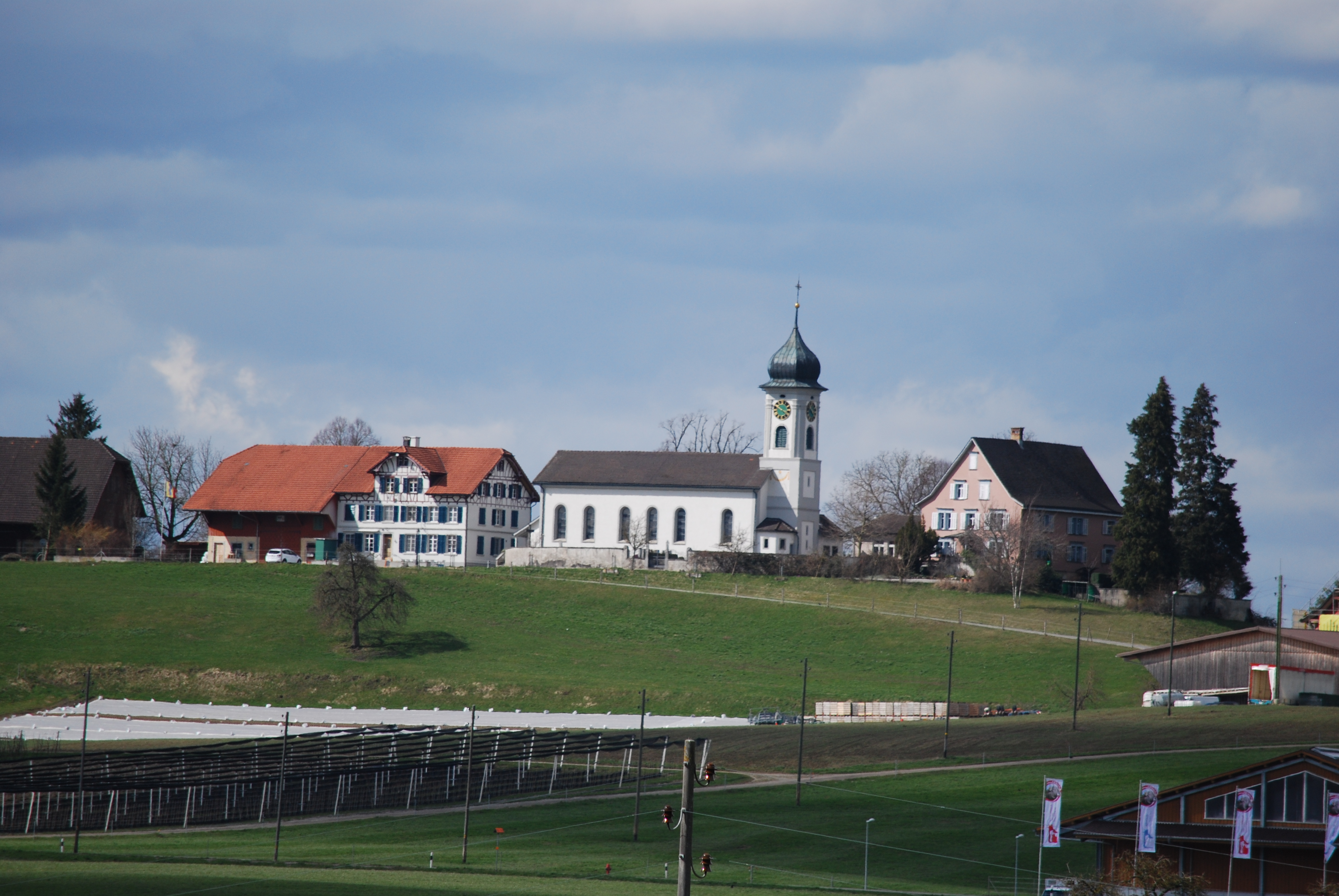 Wertbühl, municipality of Bussnang, canton of Thurgovia, Switzerland